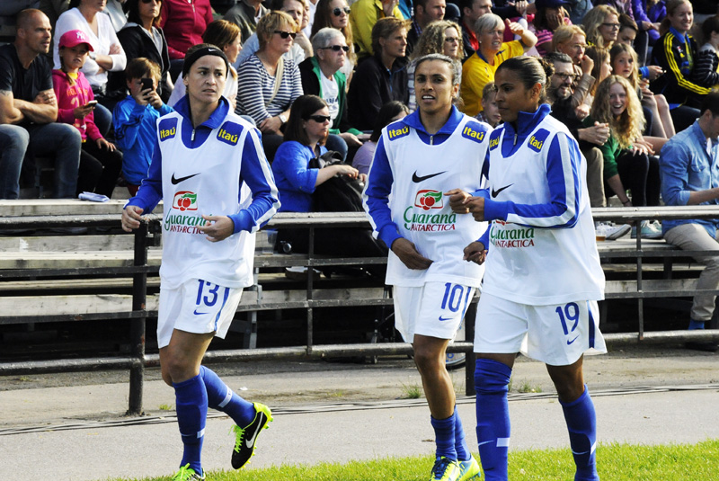 Brazilian footballers Gislaine (13), Marta (10) and Fabiana (19)